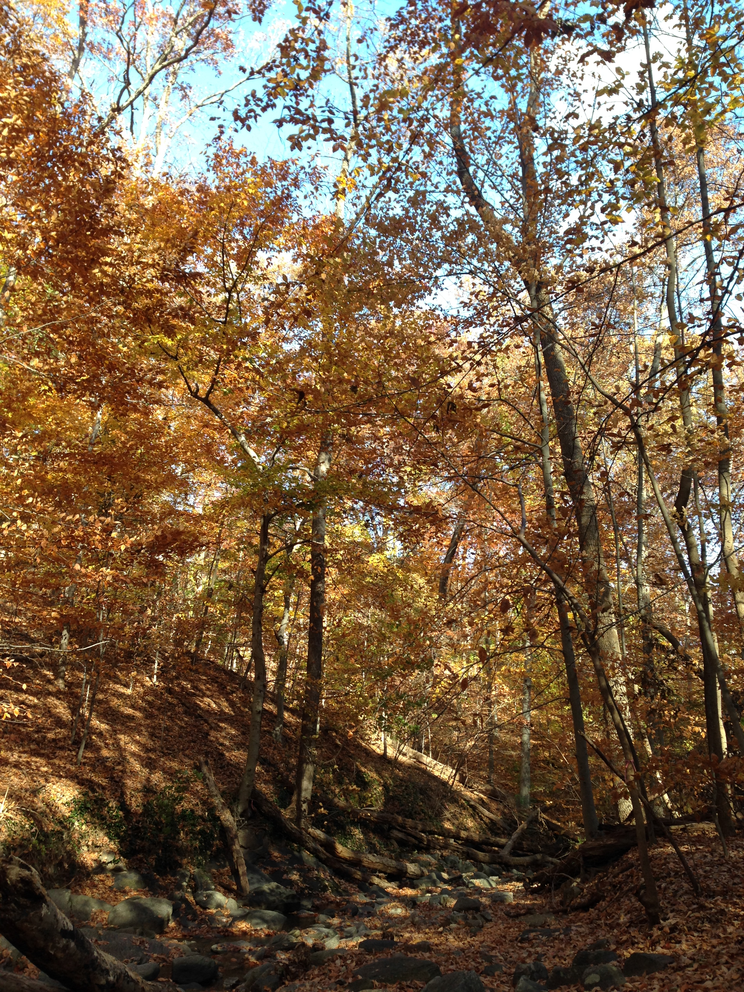 November photograph of the Soapstone Valley, which is a section of Rock Creek Park in Washington, DC. The small stream running along the valley bottom is a tributary to Rock Creek.